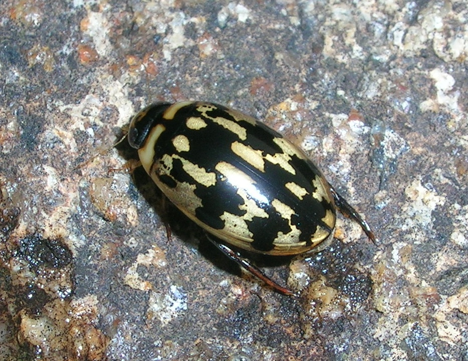 Dytiscidae, probably Sandracottus dejeani, diving beetle from Rock pool, Thiruvannamalai, India